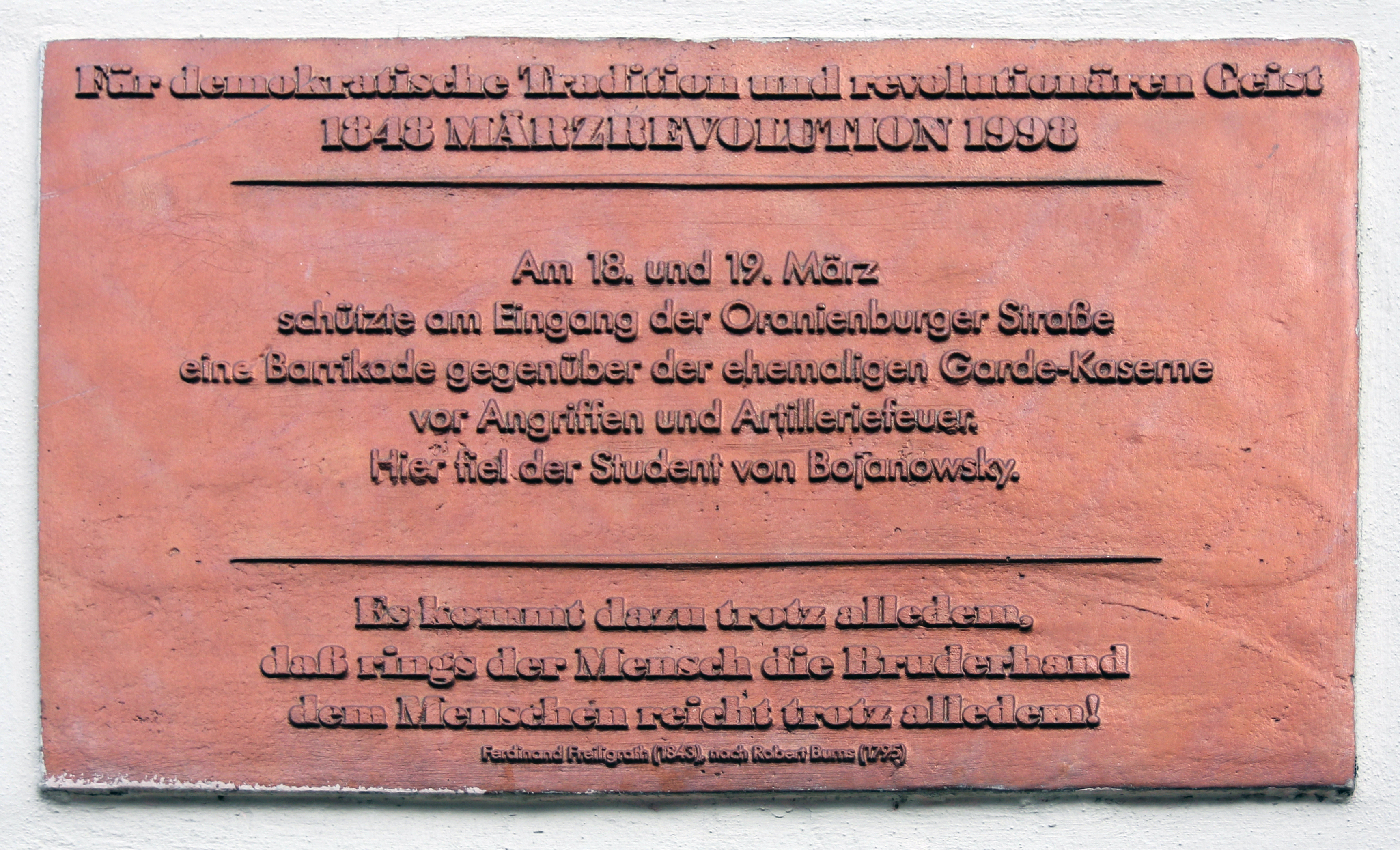 Memorial plaque, Alfred Alfons von Bojanowski, Linienstraße 135, Berlin-Mitte, Deutschland